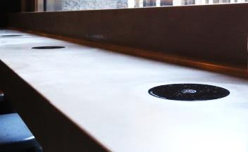 Powermat Power 2.0 Ecosystem illustration of wireless power network of charging spots controlled from the cloud, which enables to manage access to power in public places for the benefit of customers and venues.